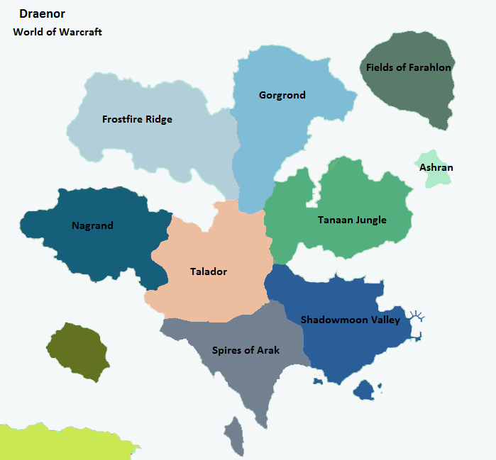 Draenor, World of Warcraft: Warlords of DraenorDansk: Draenor, World of Warcraft: Warlords of Draenor